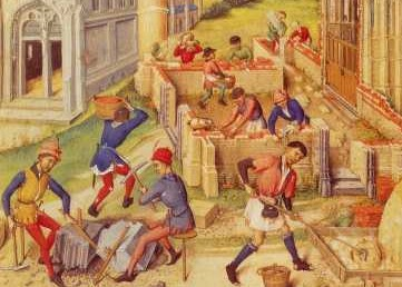 Merchants wearing rondel daggers, original medieval source. Reproduced in Medieval Panorama edited by Robert Bartlett, J Paul Getty Museum Pubns; (November 2001) ISBN: 0892366427. See also Image:Rondel dagger merchants.jpg for an uncropped version.